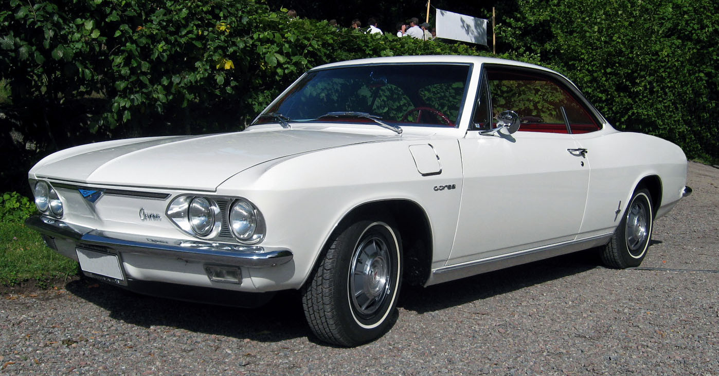 I modified the original image for use on my ad-supported automotive website (Ate Up With Motor), recropping, removing the people in the background, and obscuring the license plate. This is the modified version.